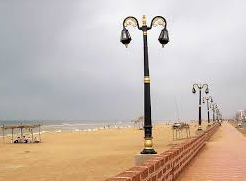 Puri beach scene